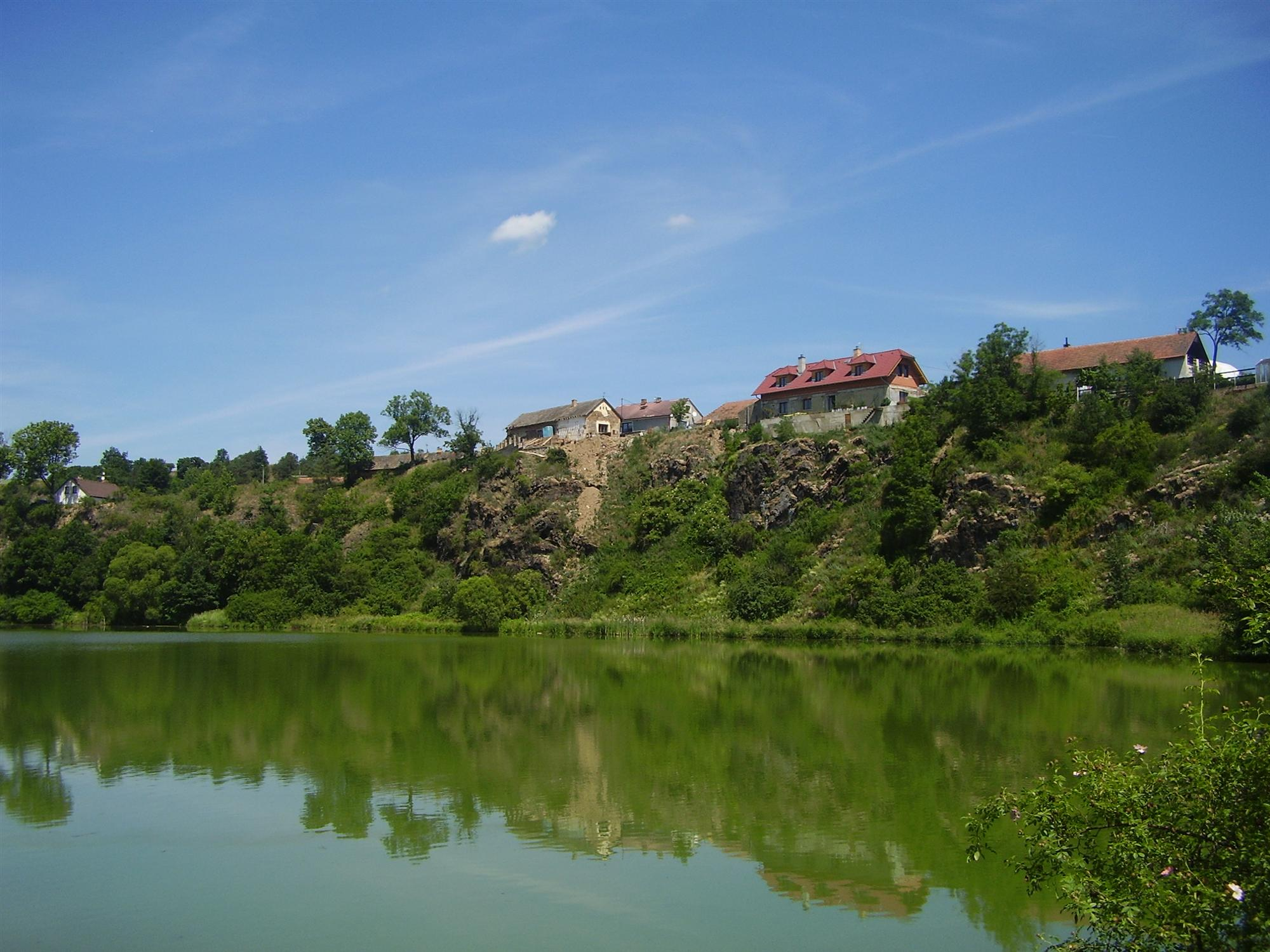 Pond and part of Bojanovice - Malá Lečice in Central Bohemian Region, Prague-West District